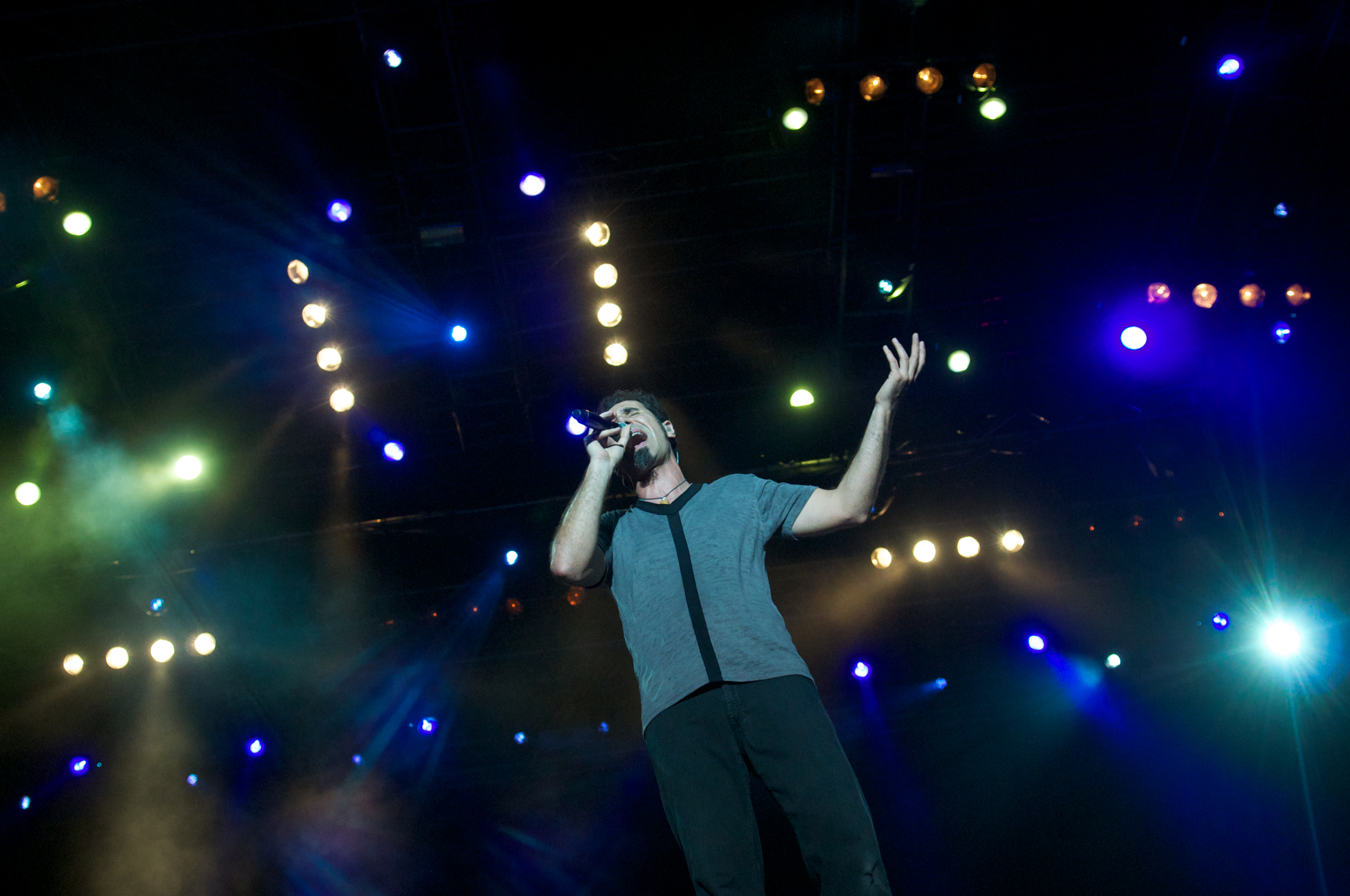 Serj Tankian Spirit of Burgas Bulgaria 2010